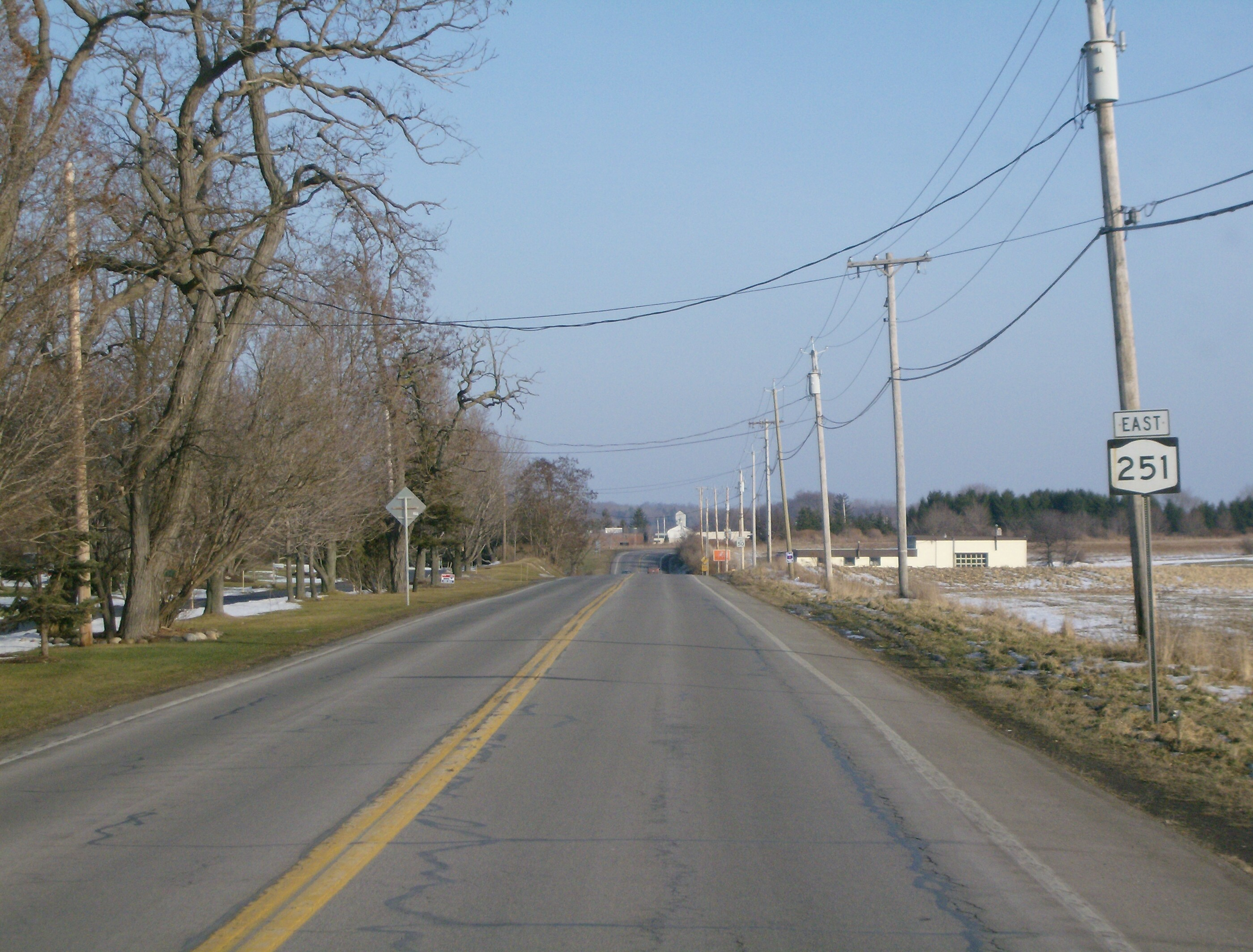 Approaching the Ontario County line on New York State Route 251 eastbound in Mendon.